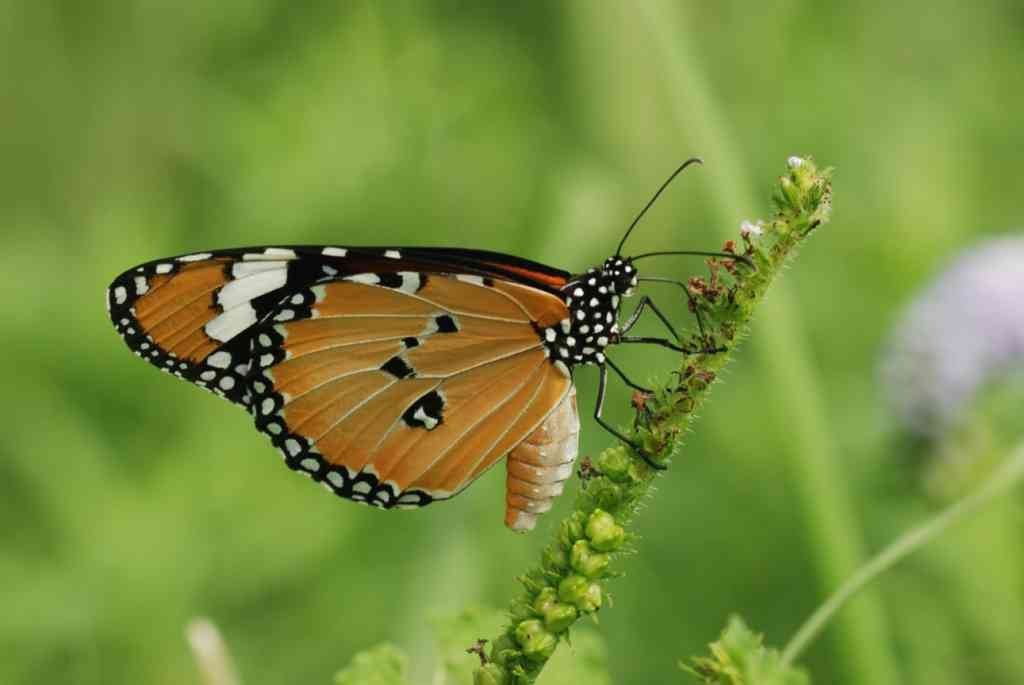 Plain Tiger (তামট),Kolkata, West Bengal, India